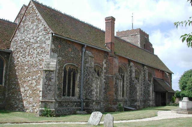 Sr Peter & St Paul, St. Osyth, Essex